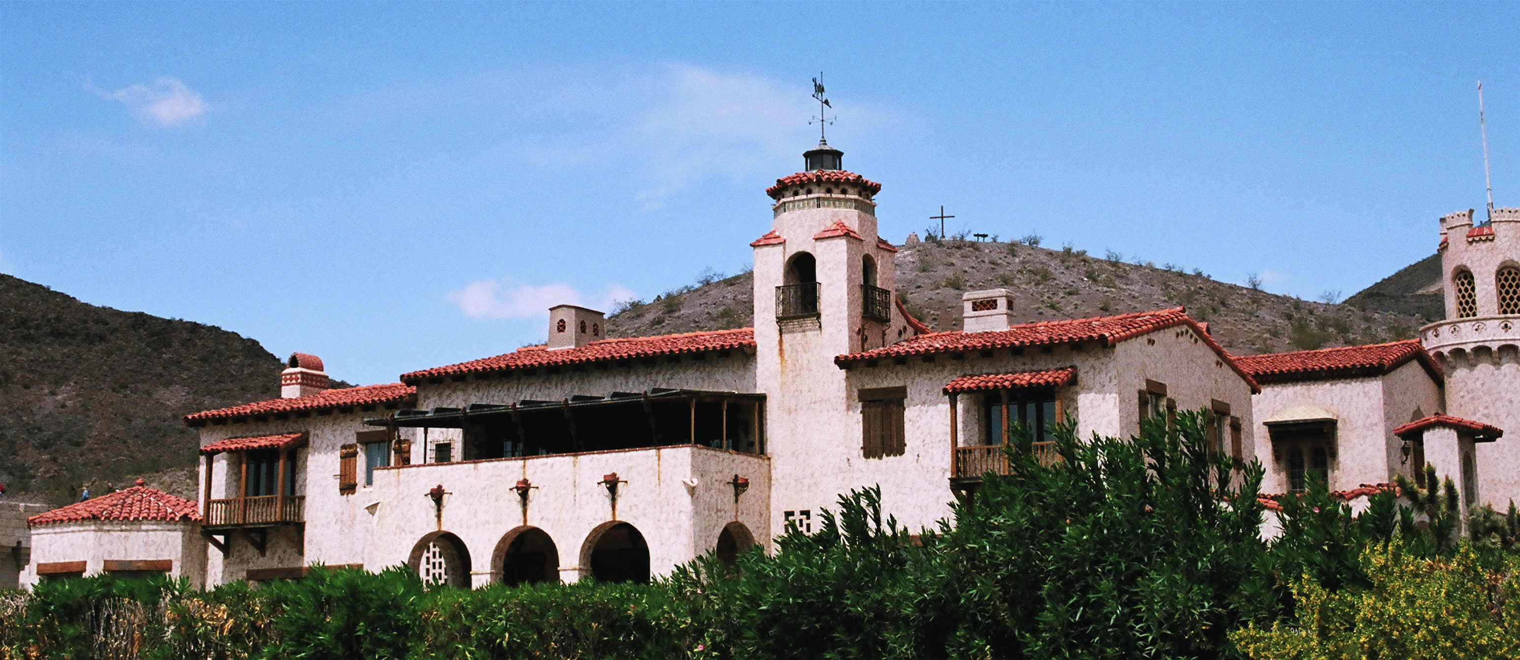 Scotty's Castle, in Deathe Valley, Ca